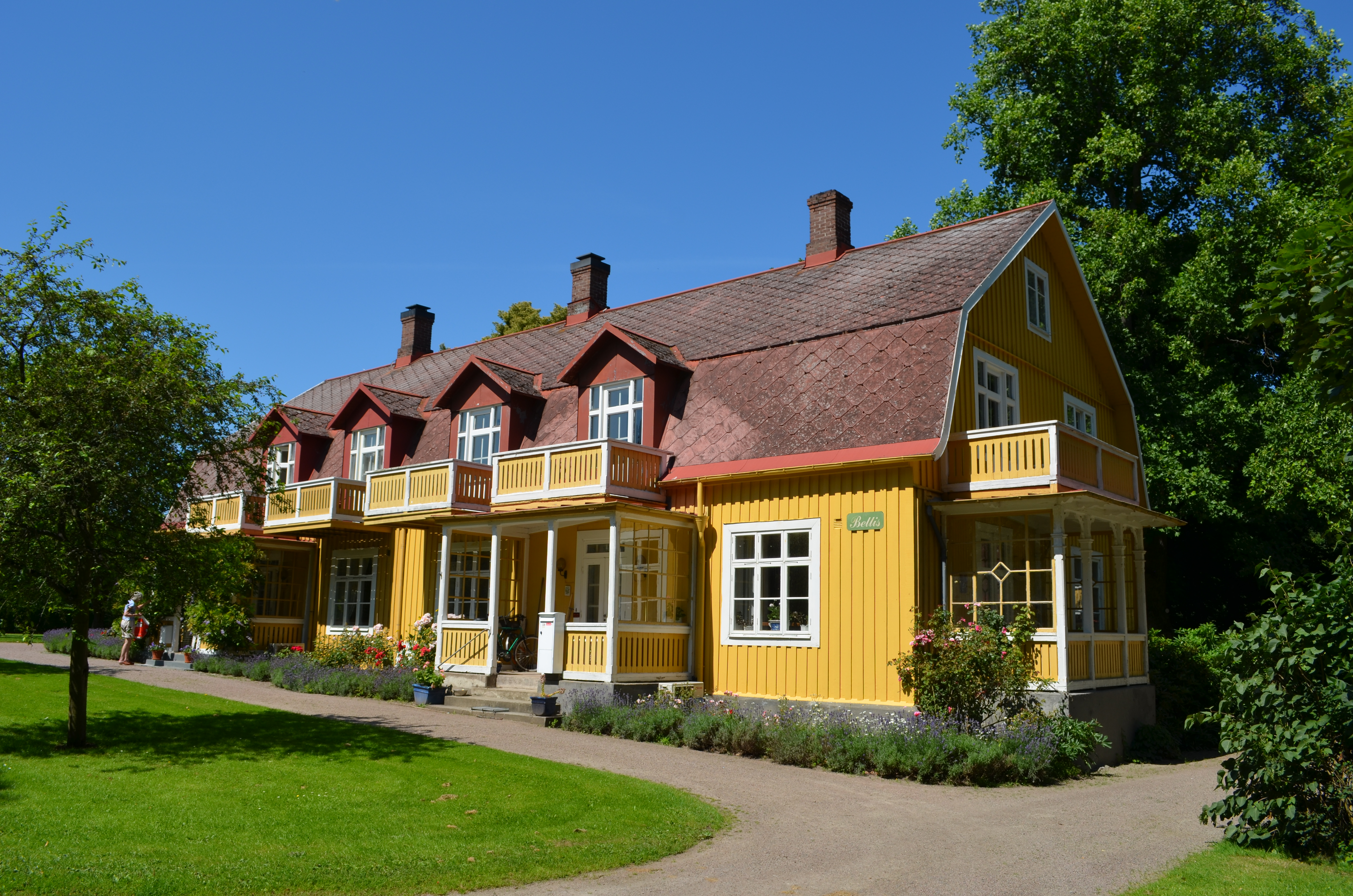 Villa Bellis in Ramlösa hälsobrunn.